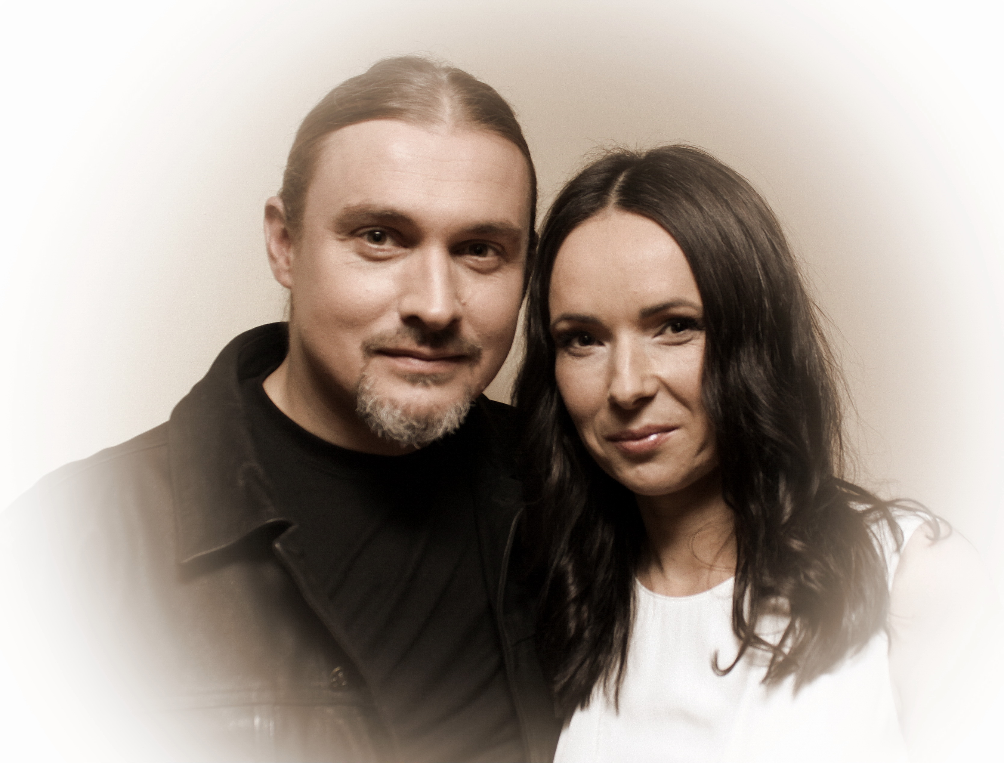 M.Balcar & K.Kowalska before the show in Bydgoszcz (2014)